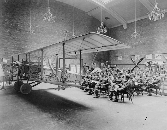 Lecture on rigging, School of Aviation, Royal Flying Corps Canada, University of Toronto, Toronto, Ontario, Canada.